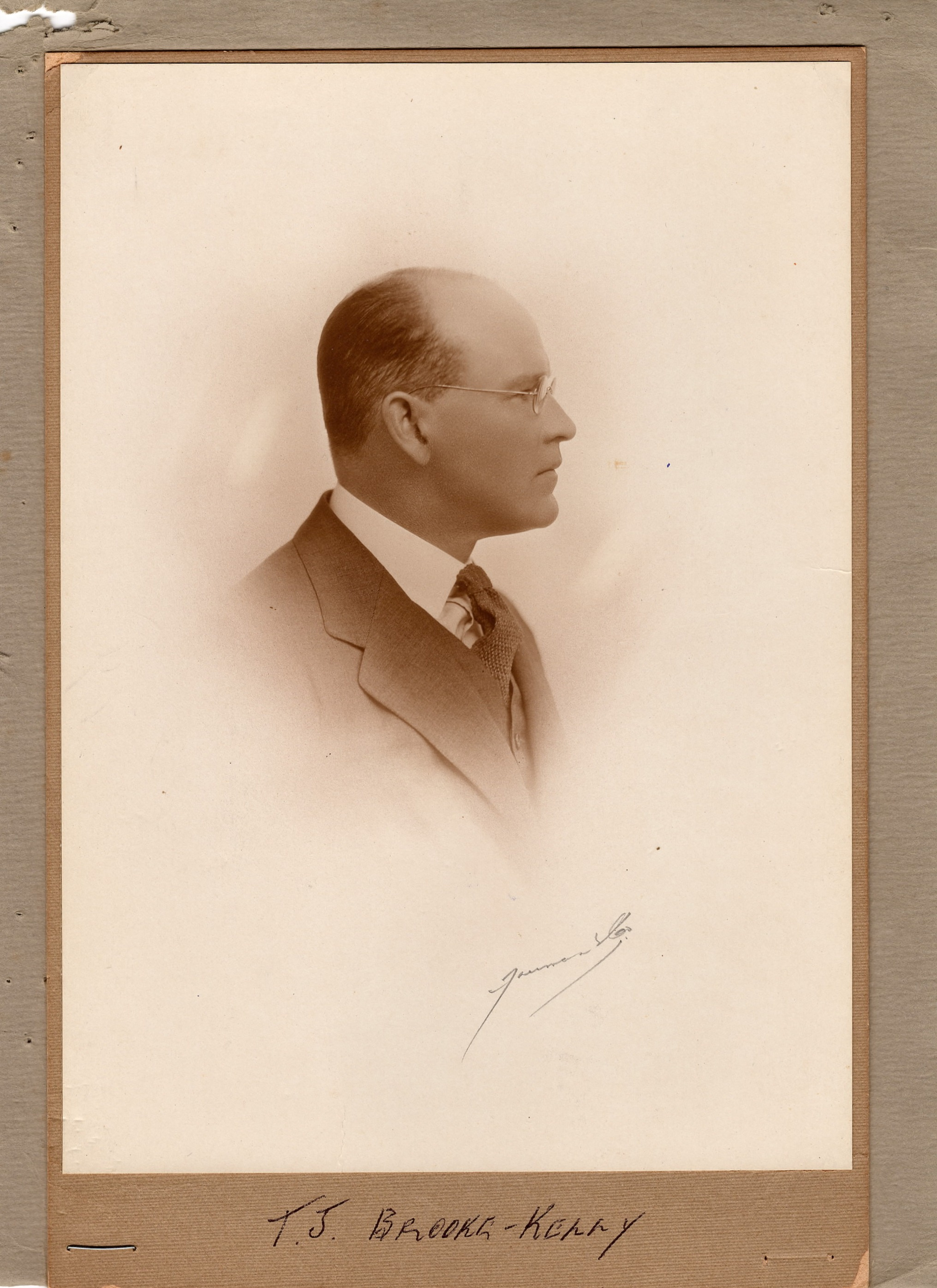 Dr Thomas Brooke-Kelly was a doctor from St Johns Wood, Brisbane. He is famous for having his house moved from St Johns Wood across the bed of Enogerra Creek and up to Waterworks Rd, where he transformed it into a hospital.